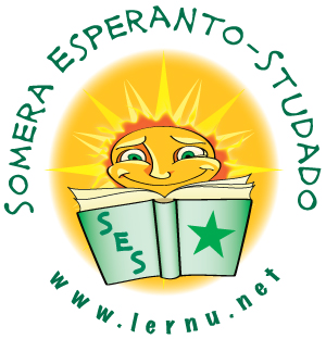 Logo of Somera Esperanto-Studado (Summer Esperanto Study, SES).